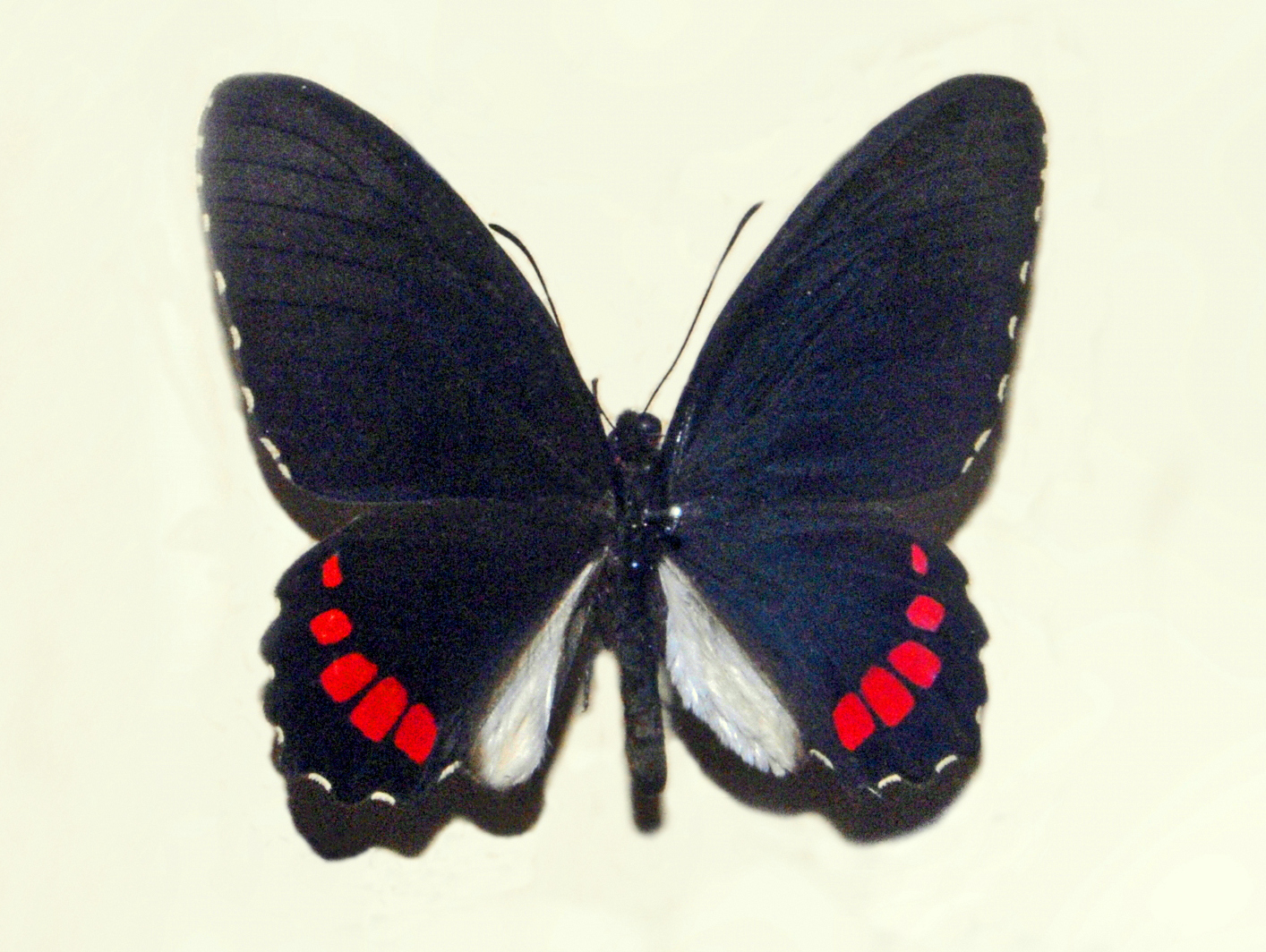 Mounted specimen of Parides erithalion polyzelus, on display at Museo di Scienze Naturali Enrico Caffi, Bergamo